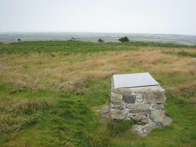 Viewpoint indicator board in the centre of Castle An Dinas hill fort There are 360 degree distant views from this commanding position, but not very clear ones on this miserable wet July day!